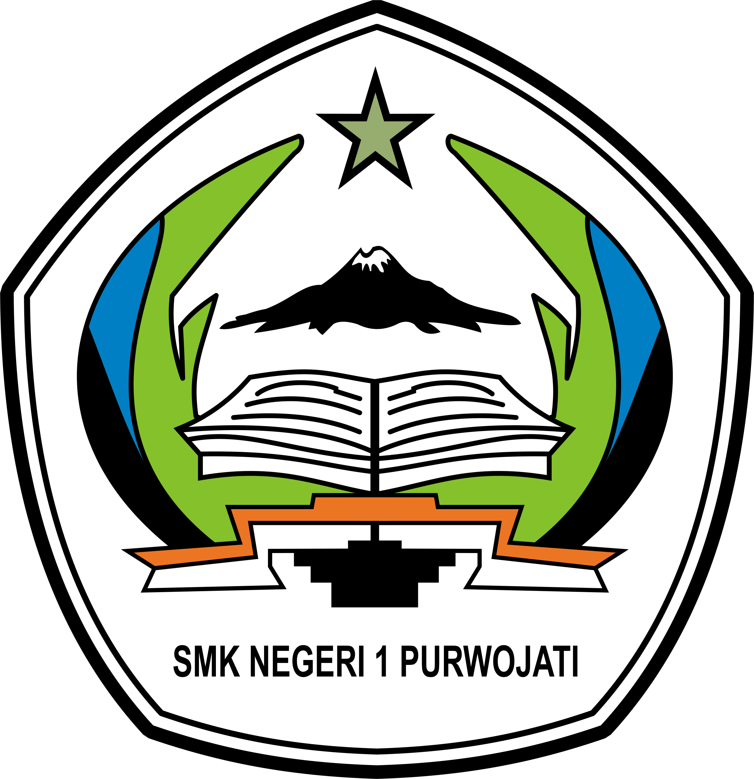 Logo SMK Negeri 1 Purwojati PNG